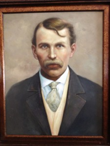 Picture of LA Tech University president W. C. Robinson, who left the position in 1900; taken from Ropp Center at Louisiana Tech; photo no longer under copyright